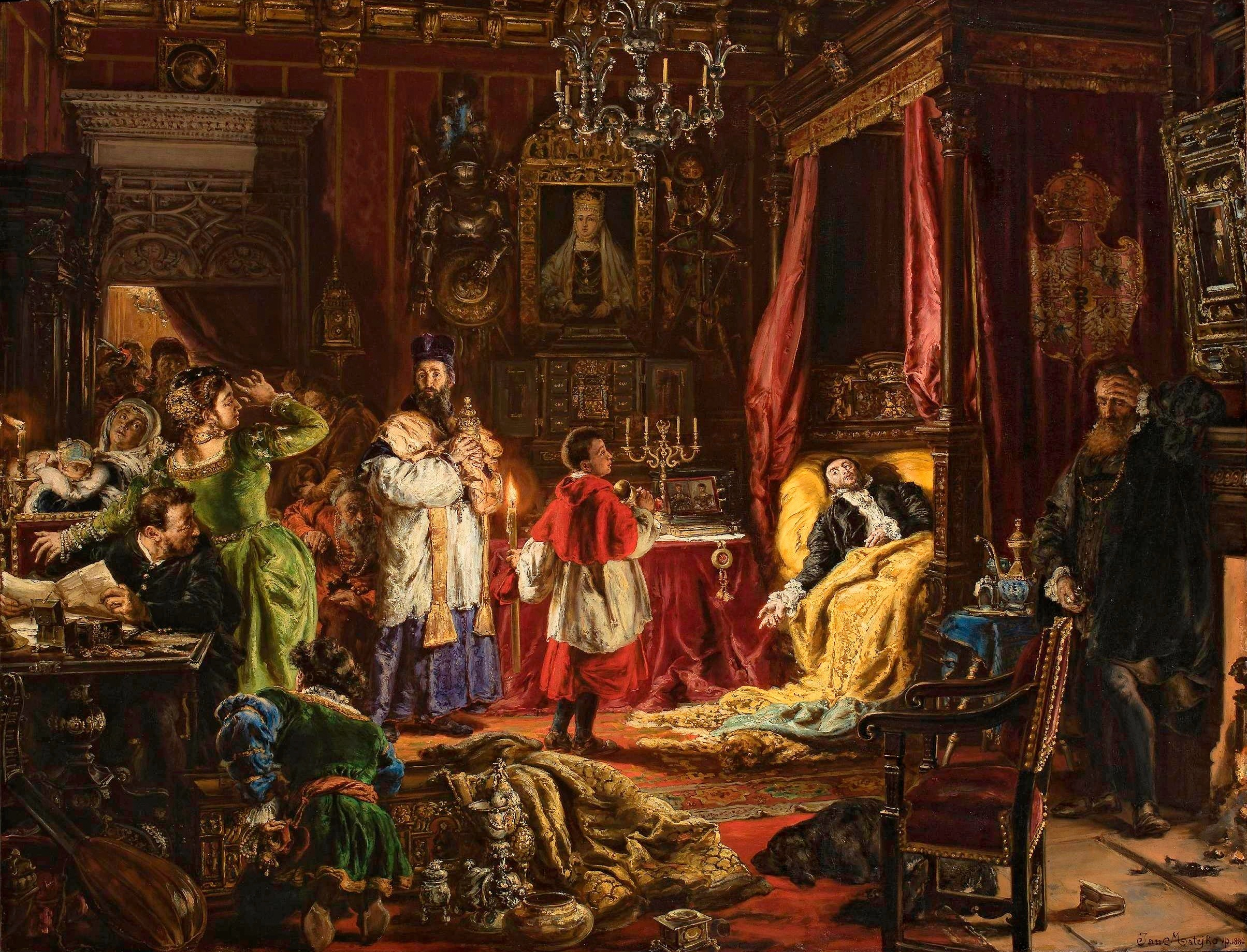 Death of Sigismund Augustus at Knyszynlabel QS:Len,"Death of Sigismund Augustus at Knyszyn"label QS:Lpl,"Śmierć Zygmunta Augusta w Knyszynie"